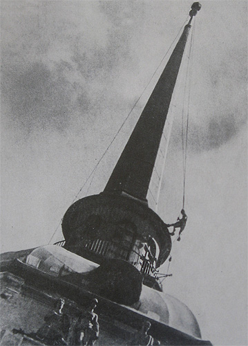 Template:Рус